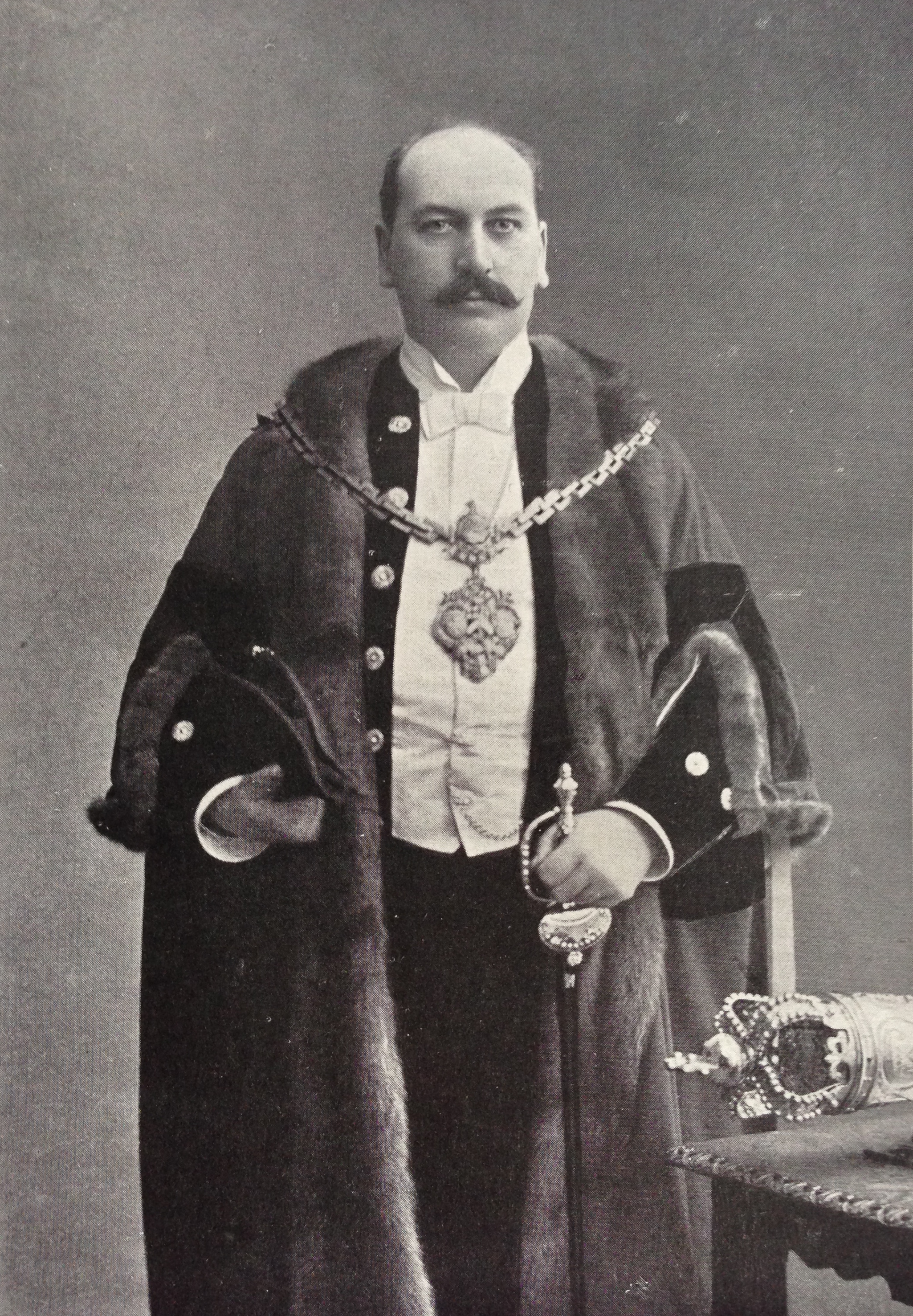 Portrait of Alexander McBean (1854-1937), Mayor of Wolverhampton 1897-1898. Colonel Alexander McBean VD, DL, JP., of Tyninghame, Tettenhall, Wolverhampton.